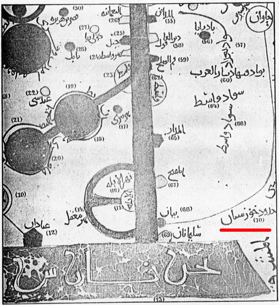 9th century map showing Khuzestan. Map was extracted (scanned) by Zereshk, from copy of "Al-aqaleem" by Istakhri, re-print of 1839, located at Iran National Museum's Library. National Museum of Iran Native name